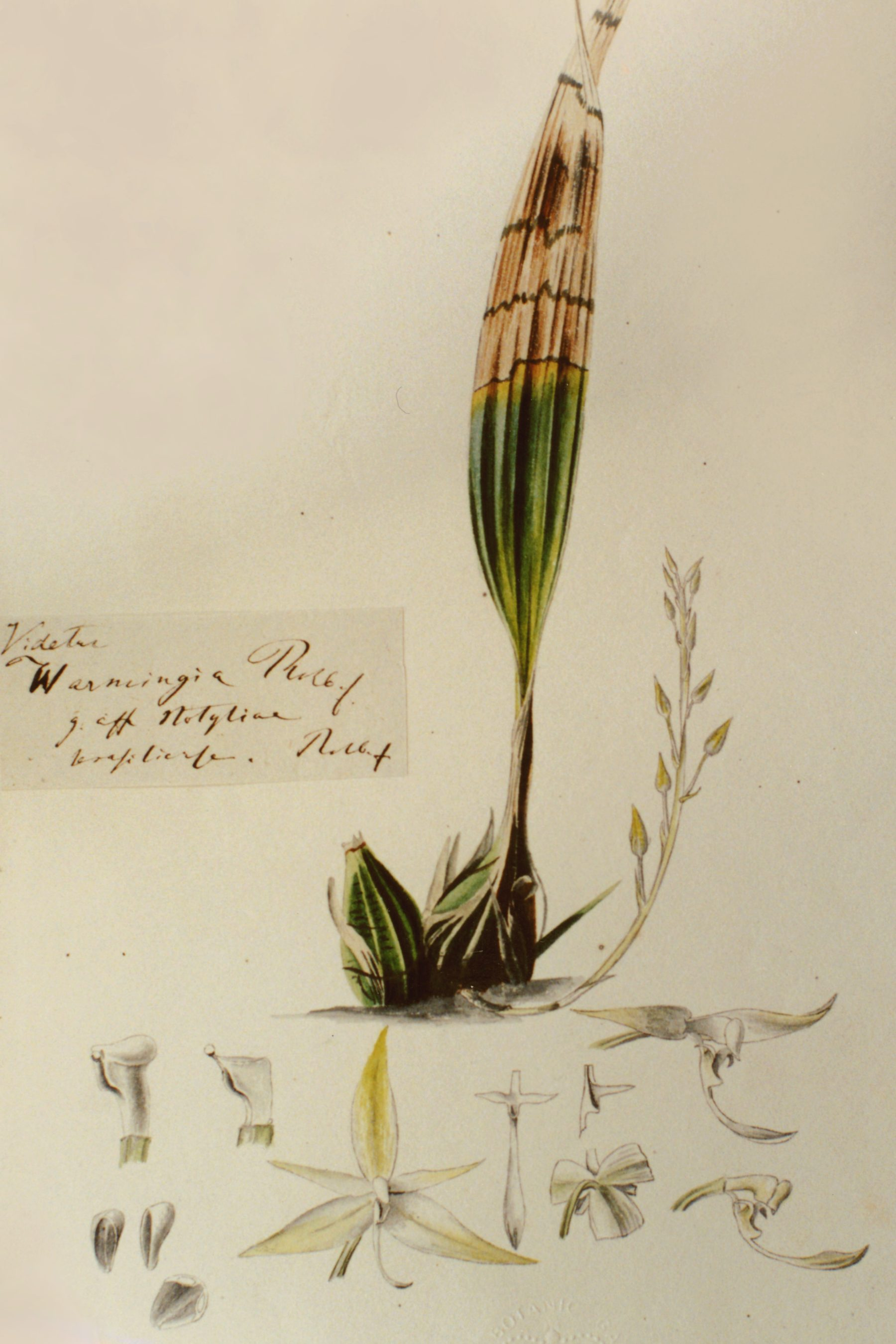 Photo of a watercolor by T. Duncanson kept during about 160 years at Kew archives. This plant has never been seen ever since and no one knows for sure anything about it. It is cited for Brazil.